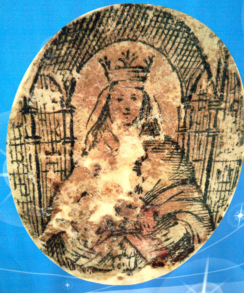 photograph taken at the Holy Relic of Our Lady of Coromoto in the Basilica of Our Lady of Coromoto